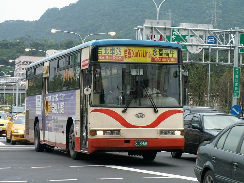 Metropolitan Transport Co., Ltd. Xinyi Main Line bus 856-AB on Xinyi Road Section 5, Taipei City.